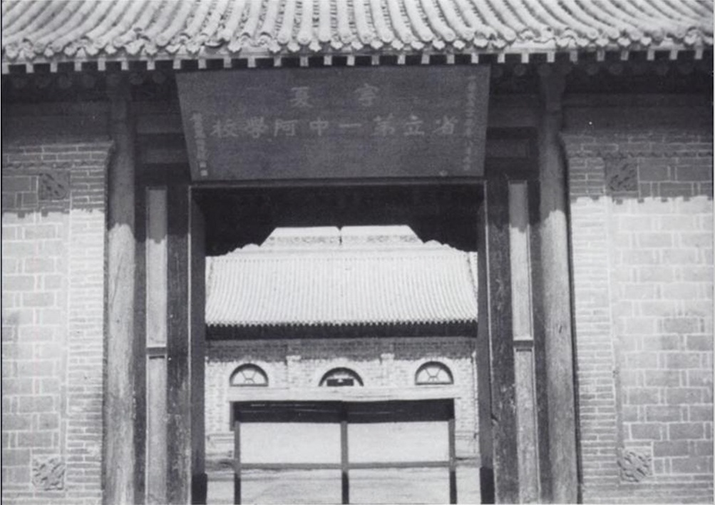 Gatehouse of a Sino Arabic school near Ningxia during the Republic of China.